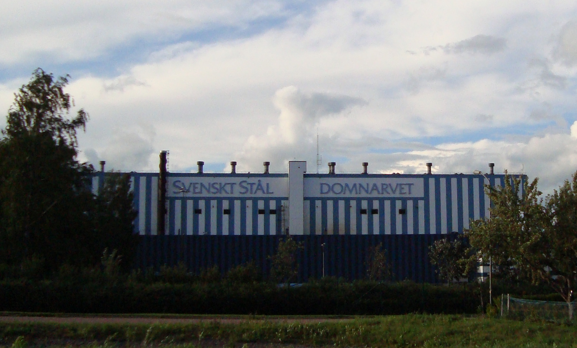 SSAB Steel mill, Borlänge, Sweden